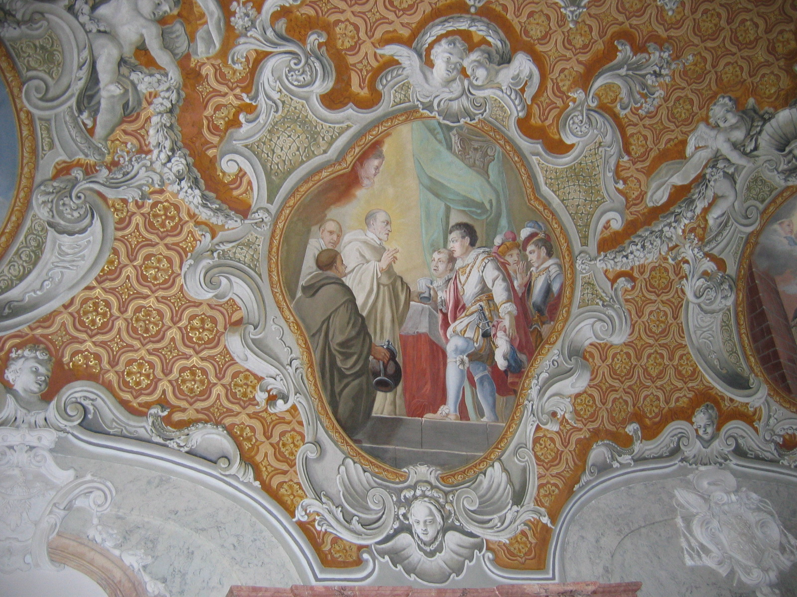 The refectory in Lubiąż Abbey, Poland. One of the medallions showing scenes from lives of saints Benedict and Bernard. Painted by Felix Anton Scheffler in 1733.